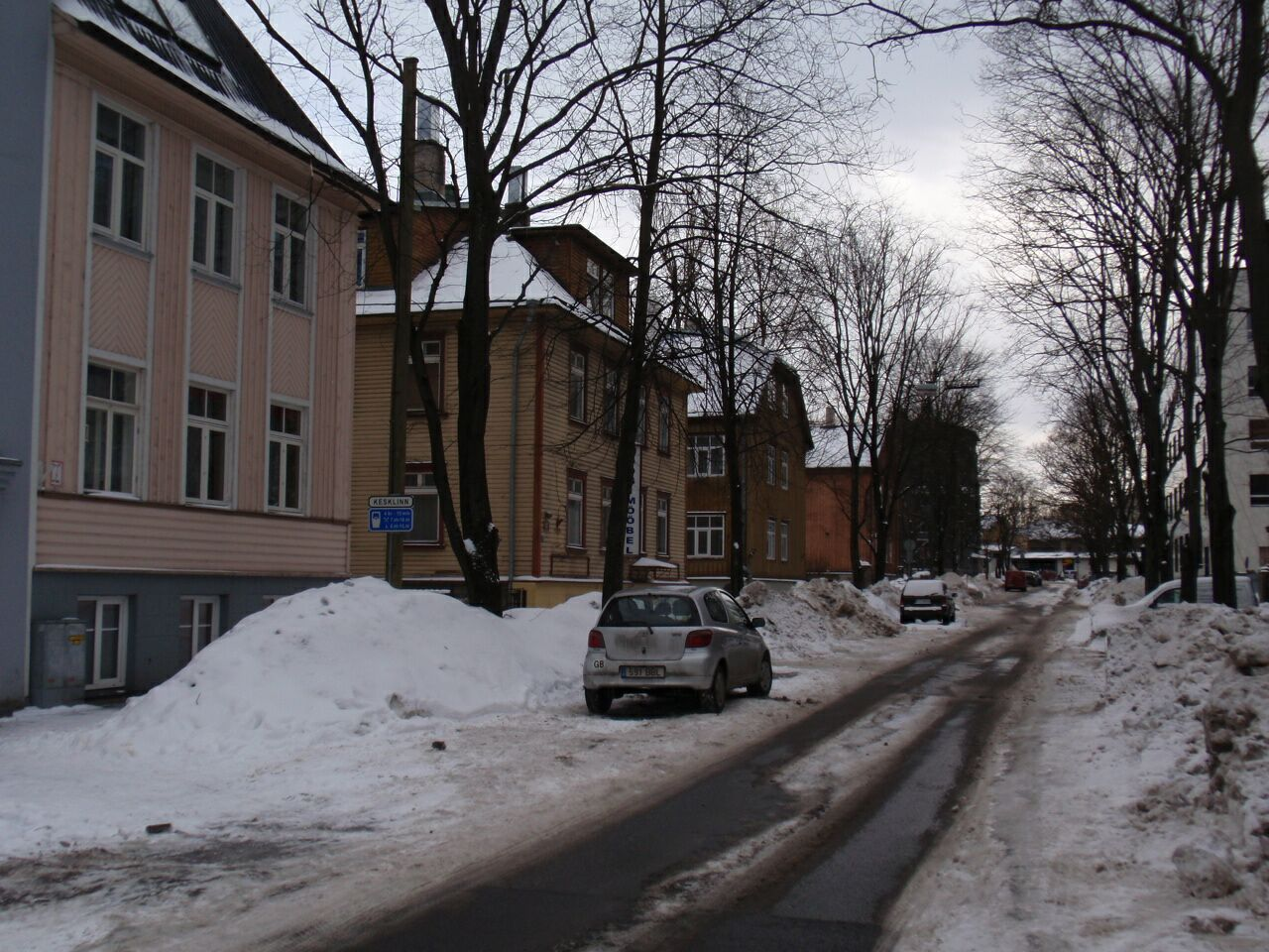 Wooden apartment houses on K. A. Hermanni street, Tallinn.